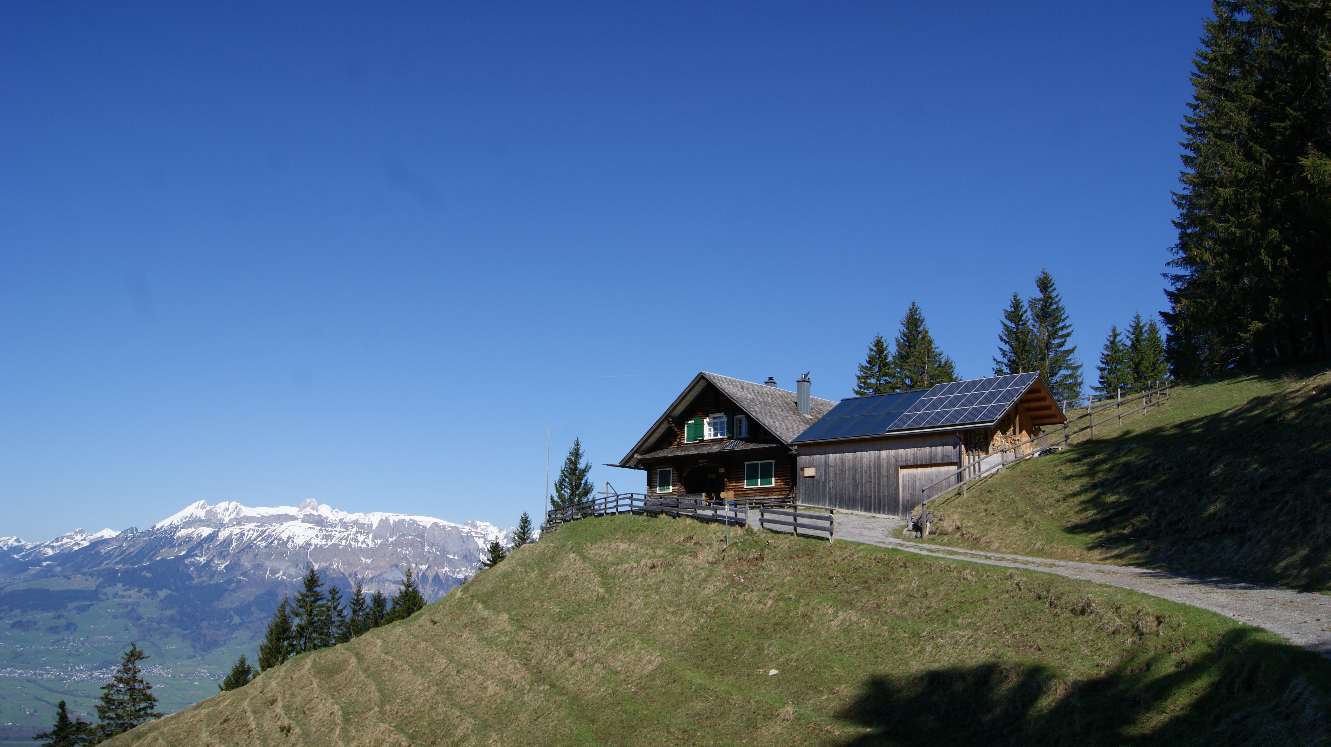 Gafadurahuette, Planken, Principality of Liechtenstein. In the background: Saentis (2502) and Altmann (2436).